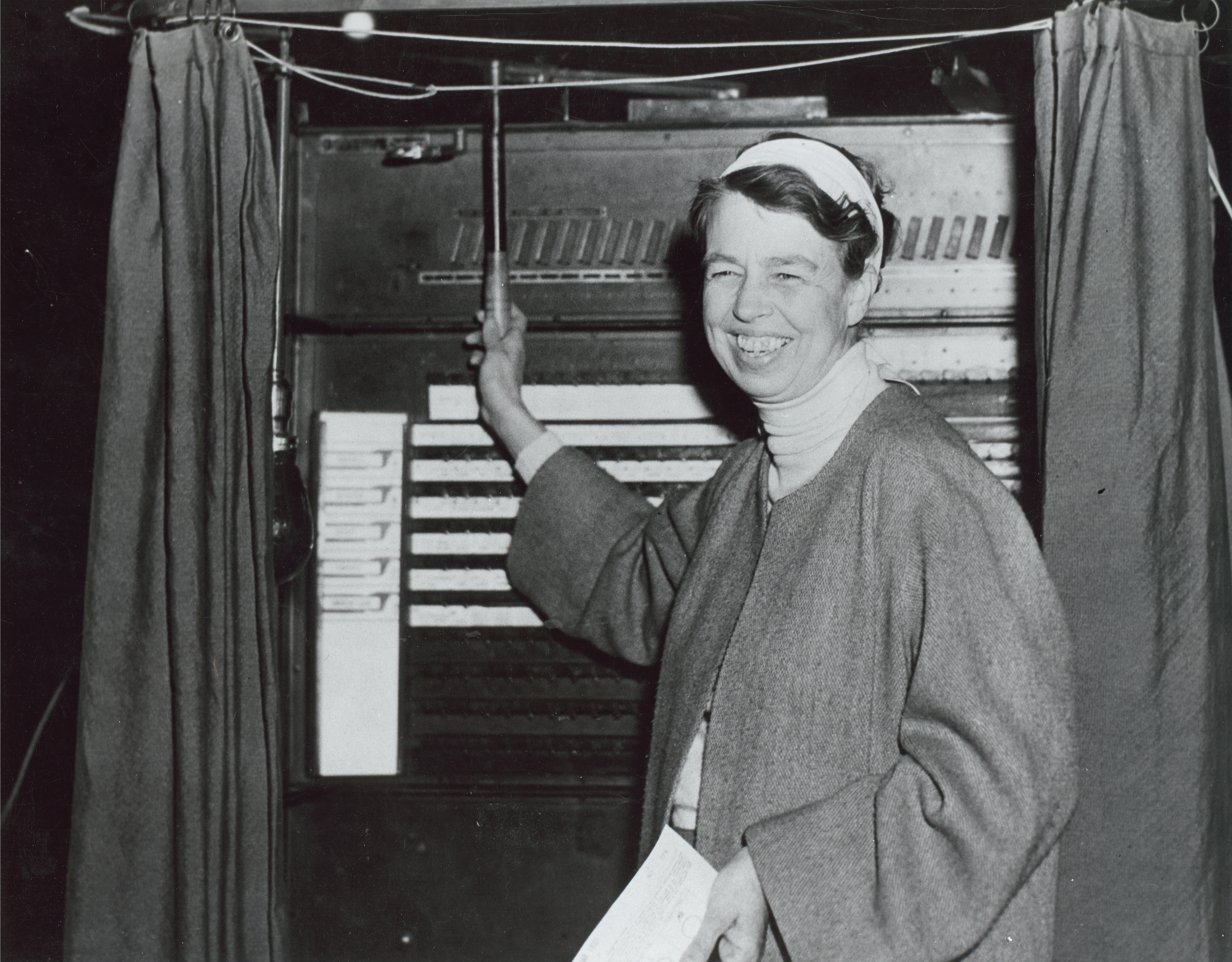 Eleanor Roosevelt votes at Hyde Park, New York. November 3, 1936